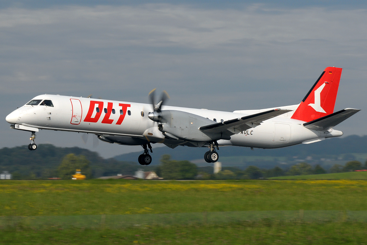 OLT Saab 2000 in Zurich